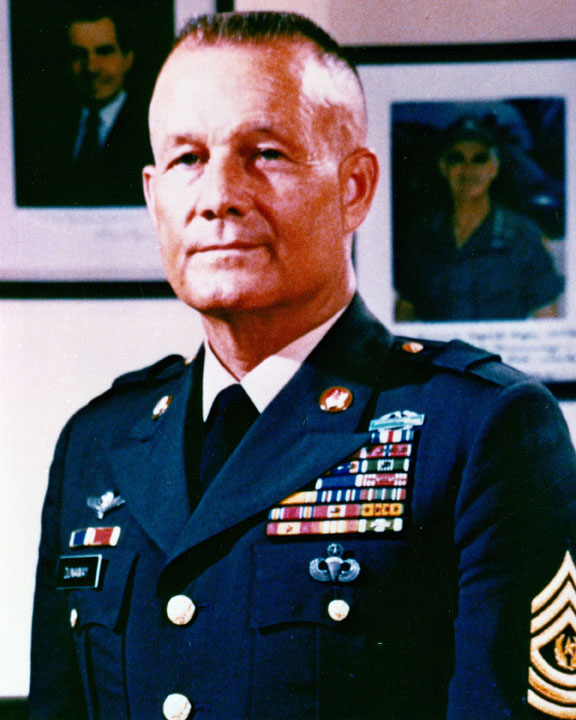 SMA George Dunaway from [1]